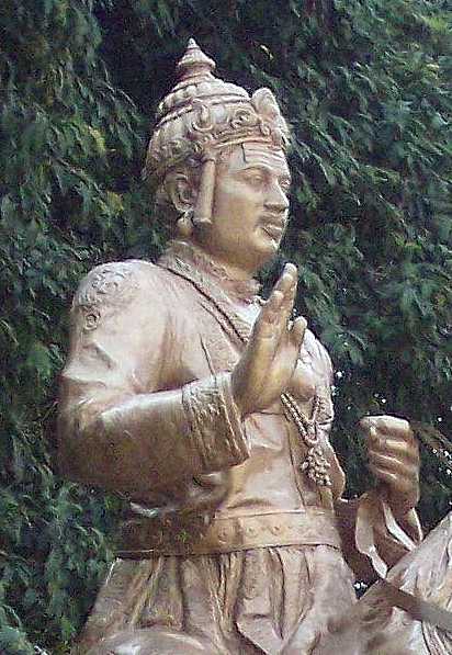 from Image:Basava_statue.jpg The licensing there, which I, as merely the cropper, make no changes to, reads